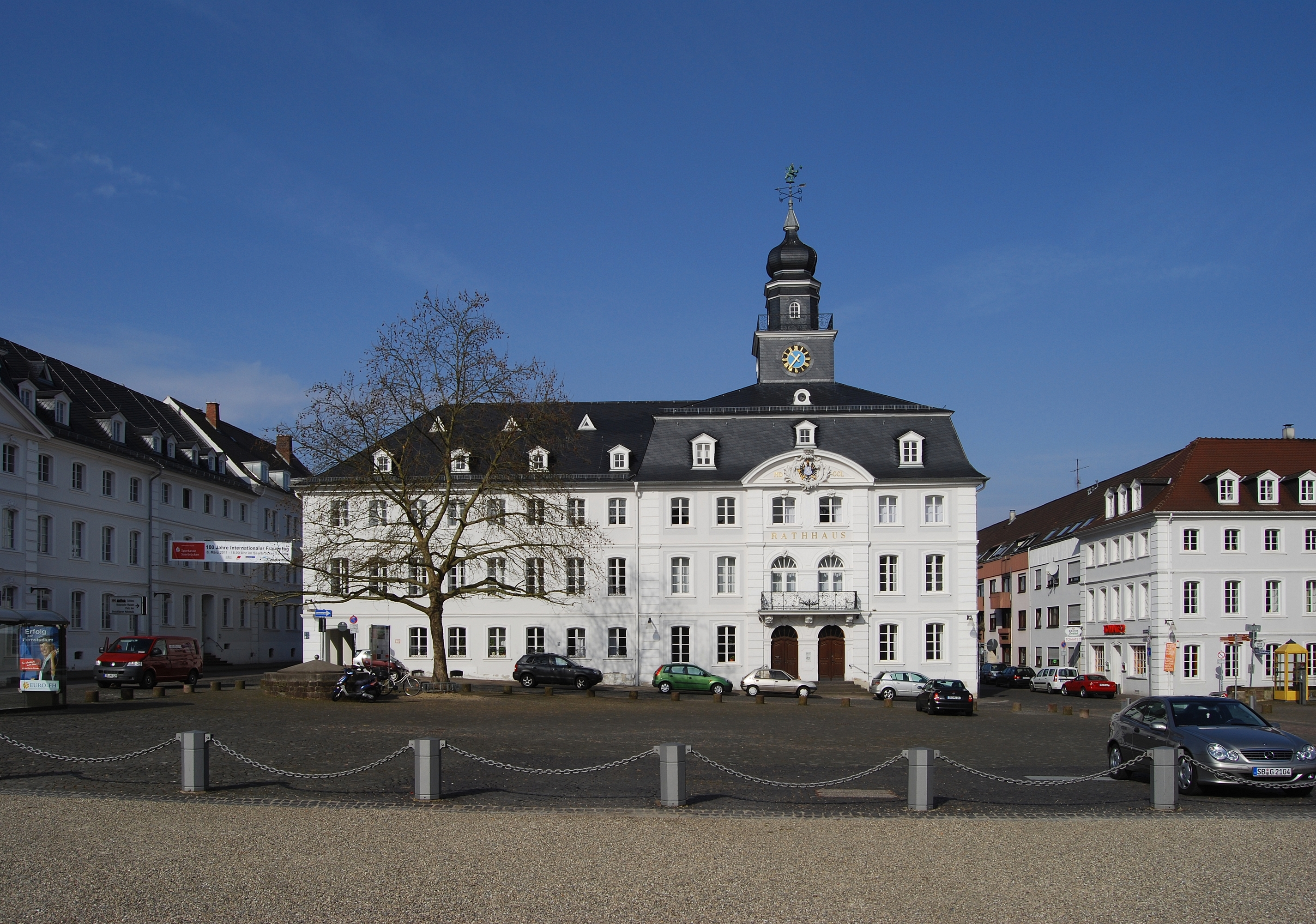 The old town hall of Saarbrücken, Saarland.